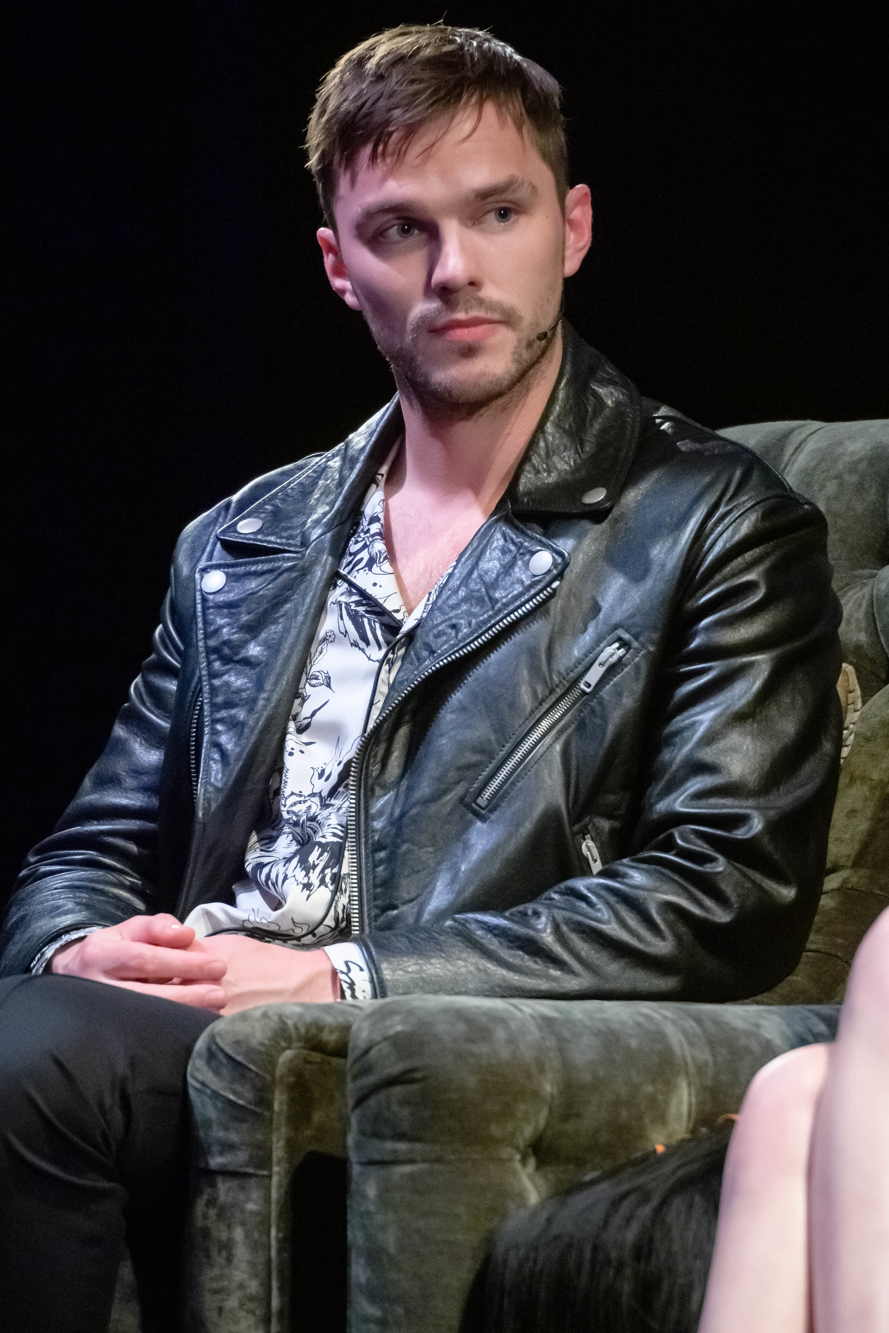 Photography by Neil Grabowsky